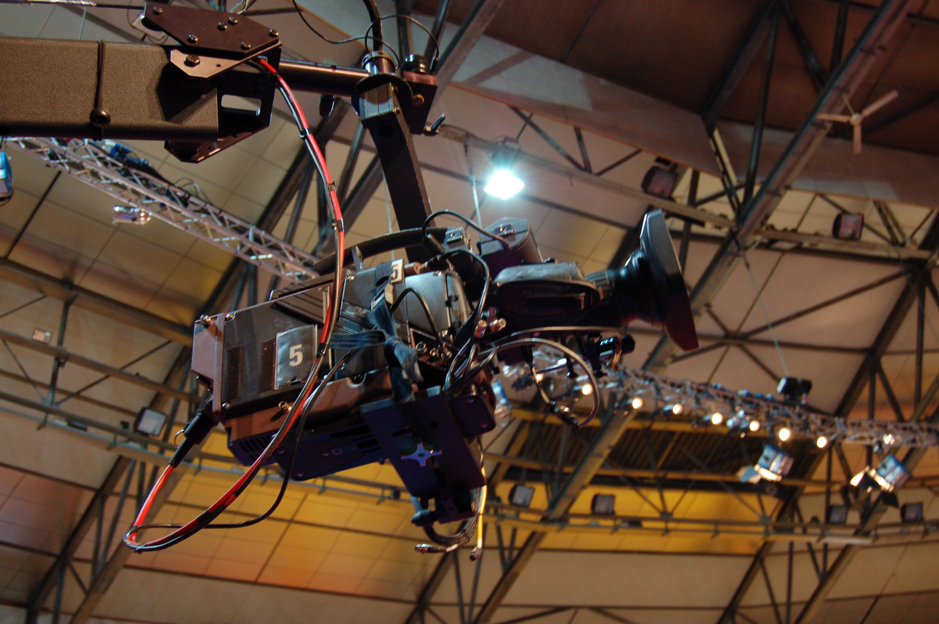 A Thomson 1657D camera mounted on a Jimmy Jib.